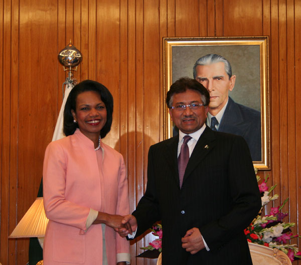 Secretary Rice met with Pakistani President Pervez Musharraf at the Presidential Palace today.